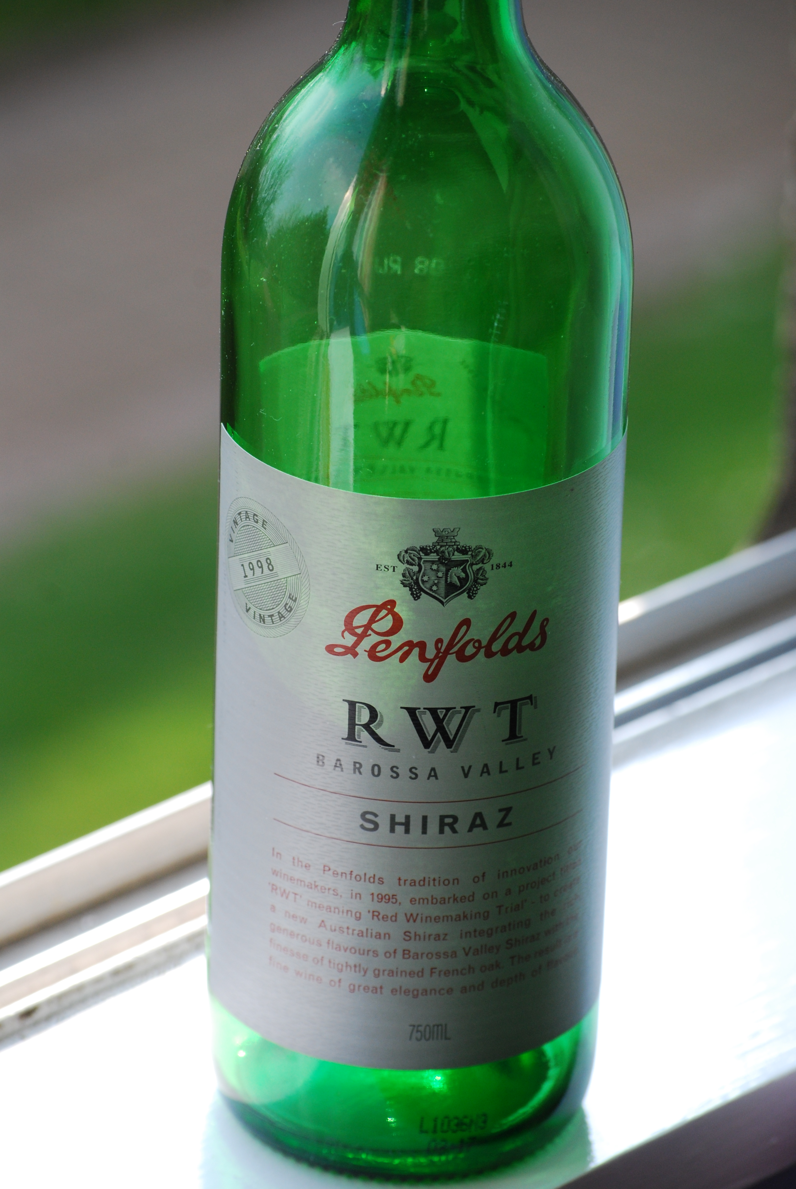 Australian red wine Penfolds RWT Barossa Shiraz 1998